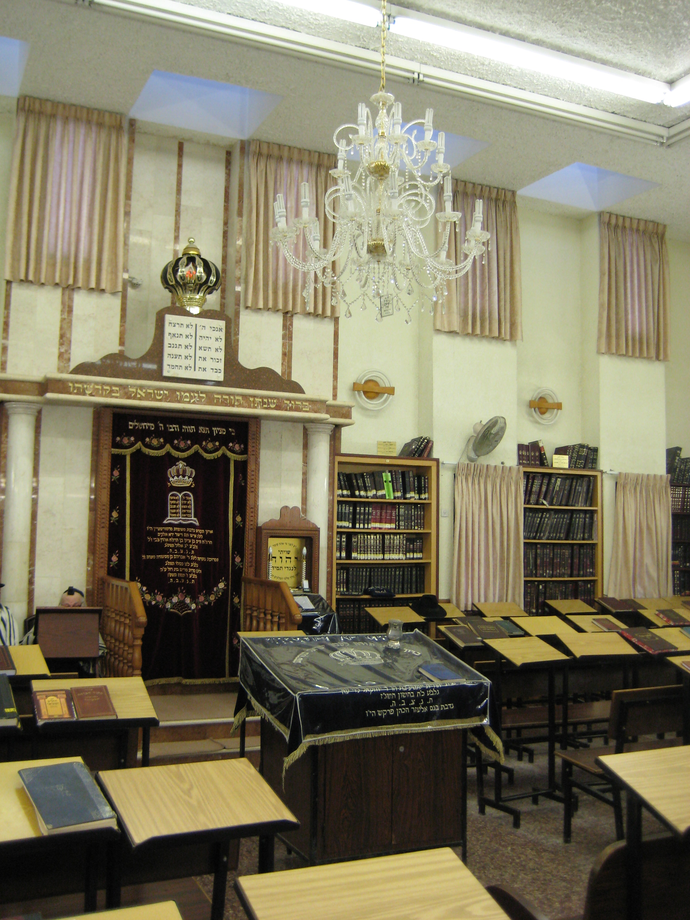 Rabbi Nissim Karelitz (left) learning in Beit Knesset Tzerei Agudat Yisrael